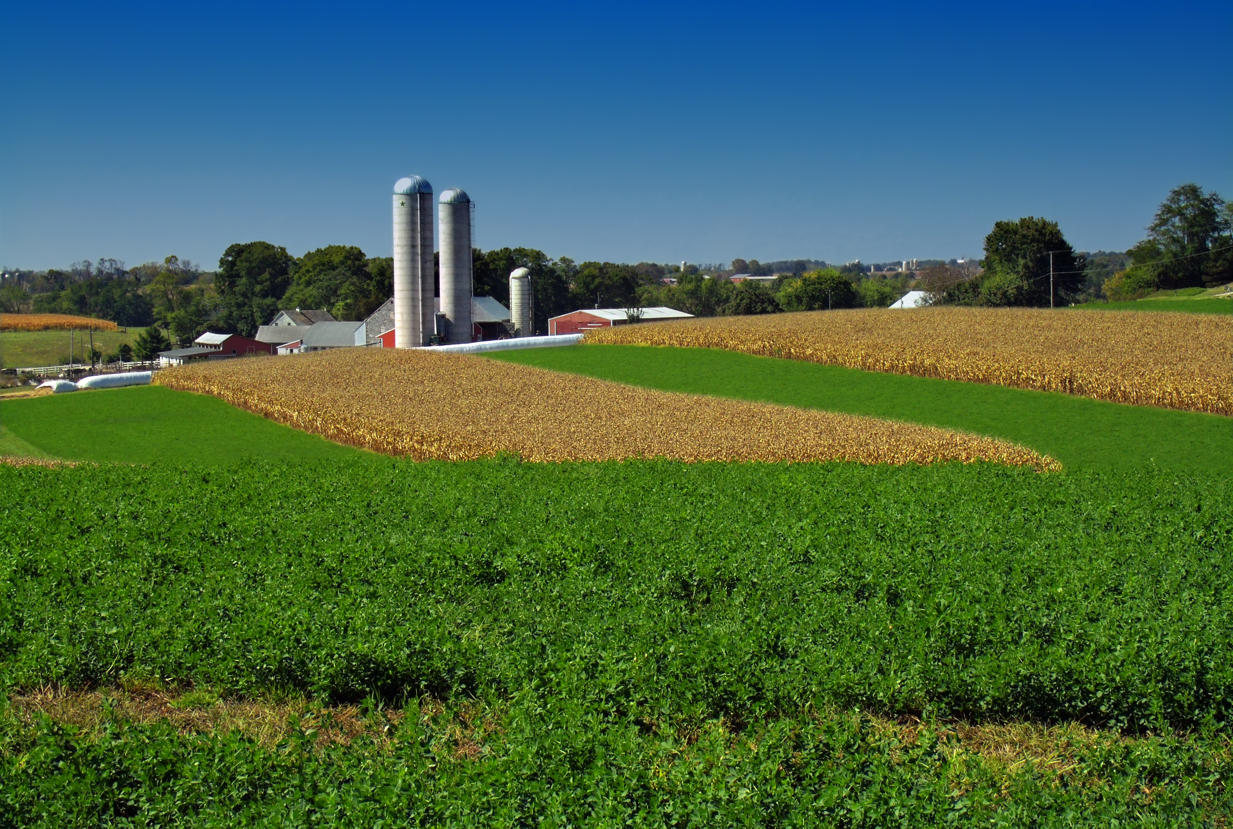 Farmstead, Heidelberg Township, Lebanon County.